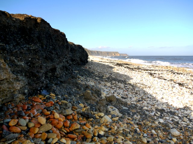 Eroding bank of coal-mine waste, Horden Beach. The bank contains coal dust, ash and shale dumped from Horden Colliery via an aerial ropeway. In places it has a yellow mineral coating and strong smell of sulphur. As you follow the bank south down the beach, the bank gets higher and the sea gets closer 1582676. On a rising tide, you feel it would have been better to have started walking above the bank rather than below and it can be a difficult climb.